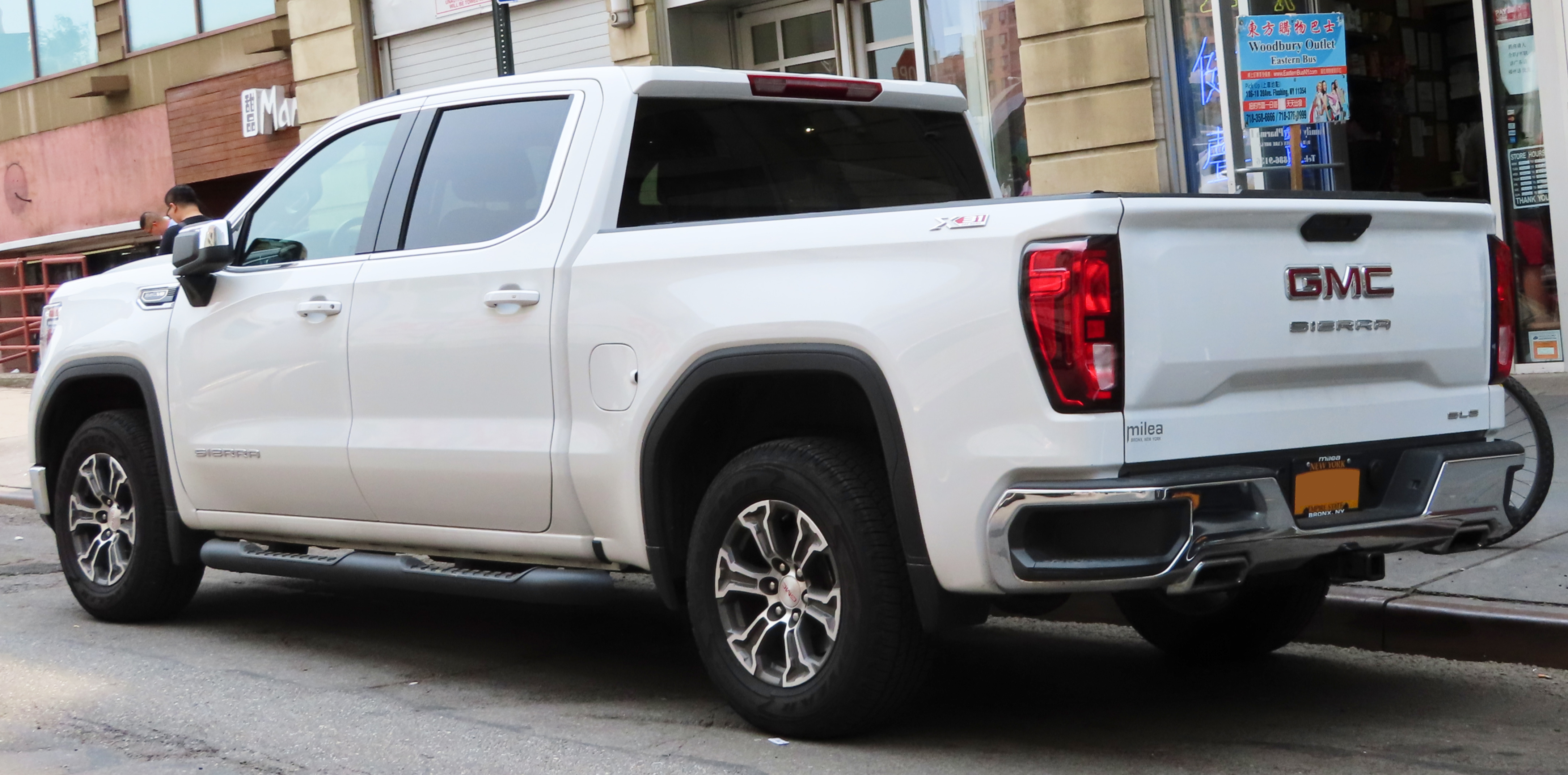 A 2019 GMC Sierra 1500 SLE photographed in Flushing, Queens, New York, USA